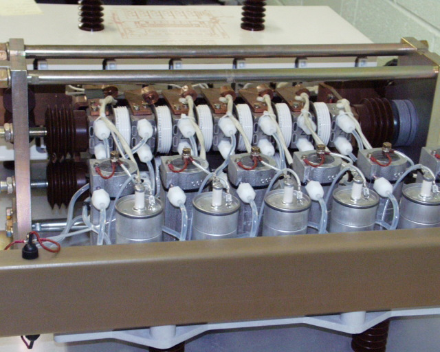 A module containing thyristors for the Nelson River Bipole. The rating of the module is 2000 A. The thyristors are the white disks at the back of the module. Transparent plastic tubes carry cooling water through the heat sinks. Capacitors in the module assist with commutation and protect against transient voltages.